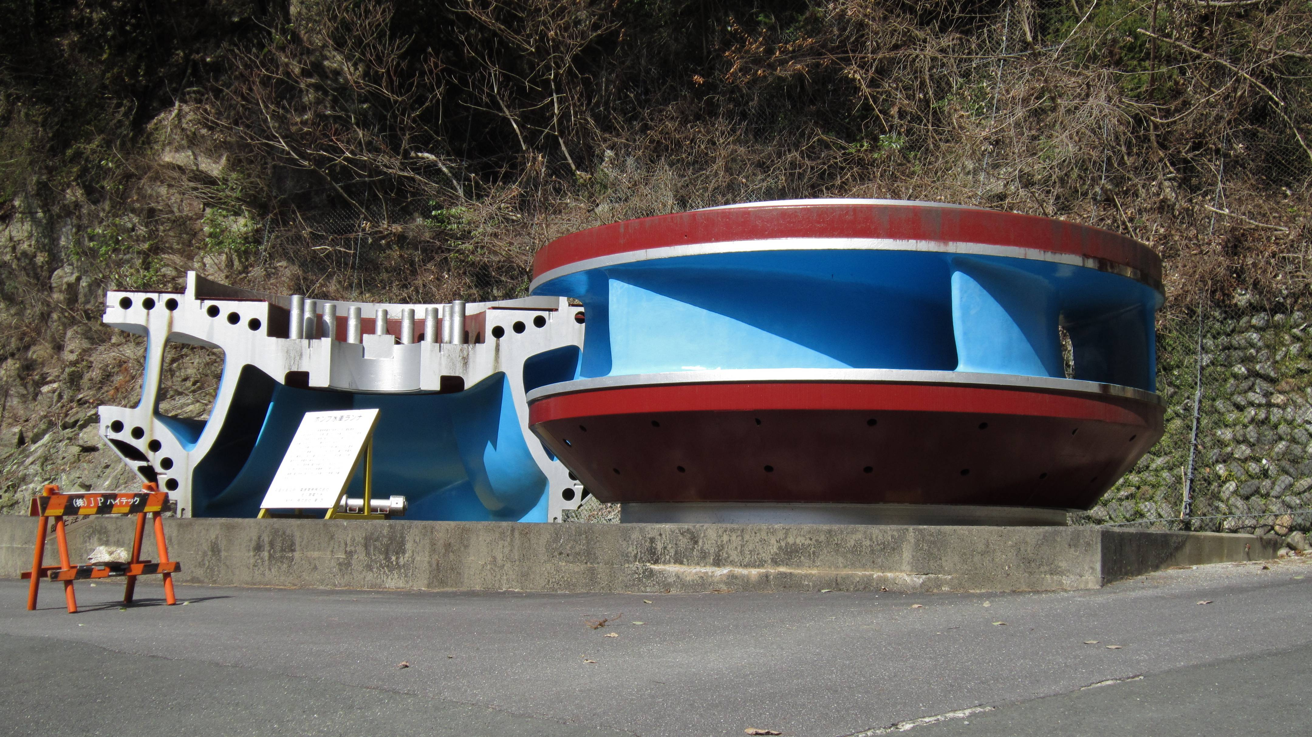 Toshiba Francis pump-turbine for Shintoyone power station.